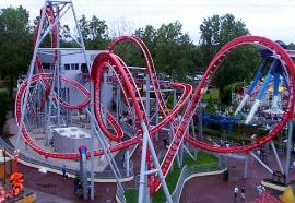 G-Force at Drayton Manor taken by me on a visit in 2005